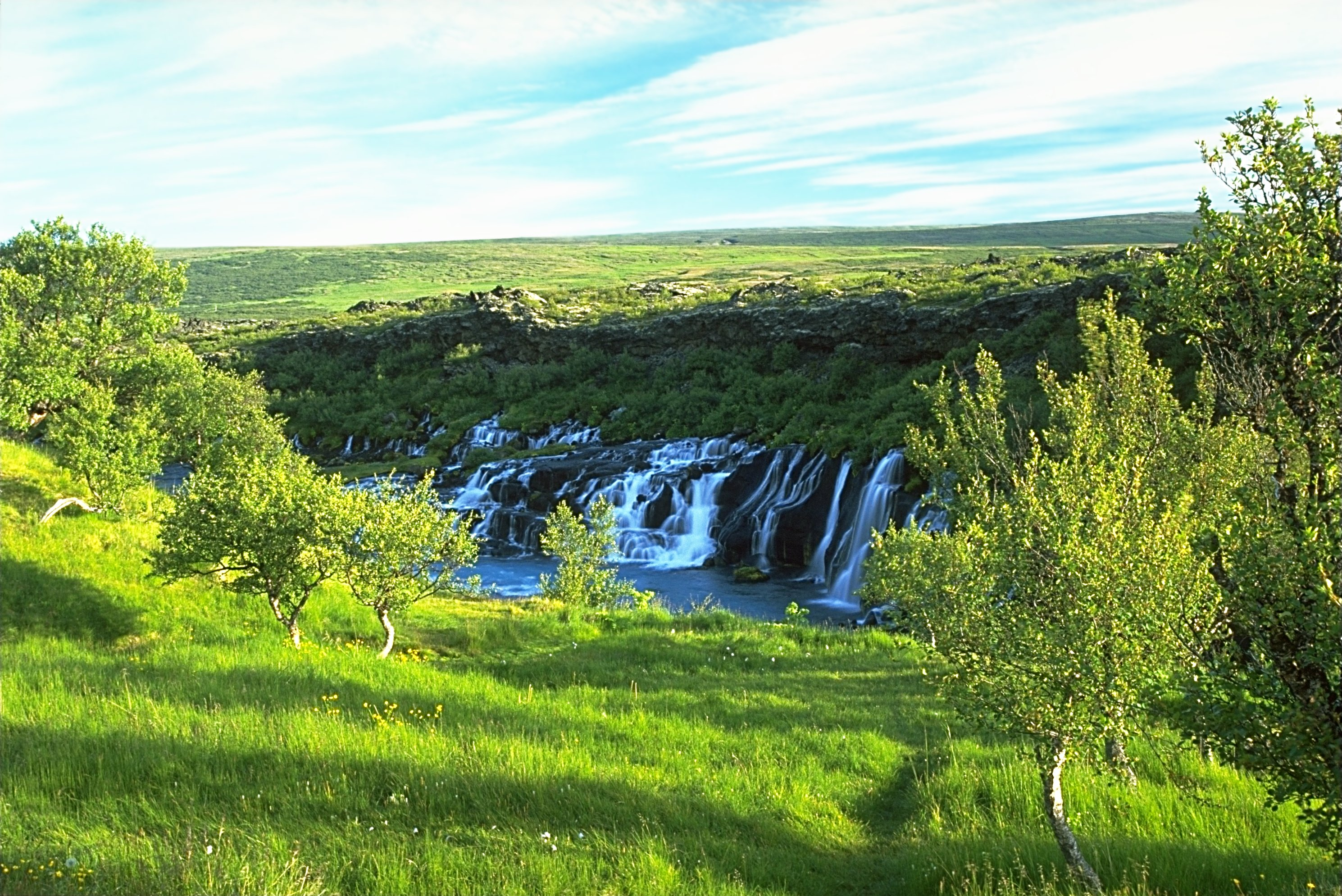 Hraunfossar at morning Photo was taken using the following technique: Film: Fuji Velvia Lens: 4/35-70 Filter: none Body: Minolta 7 Support: Manfrotto 190B Image with Information in English Bild mit Informationen auf Deutsch